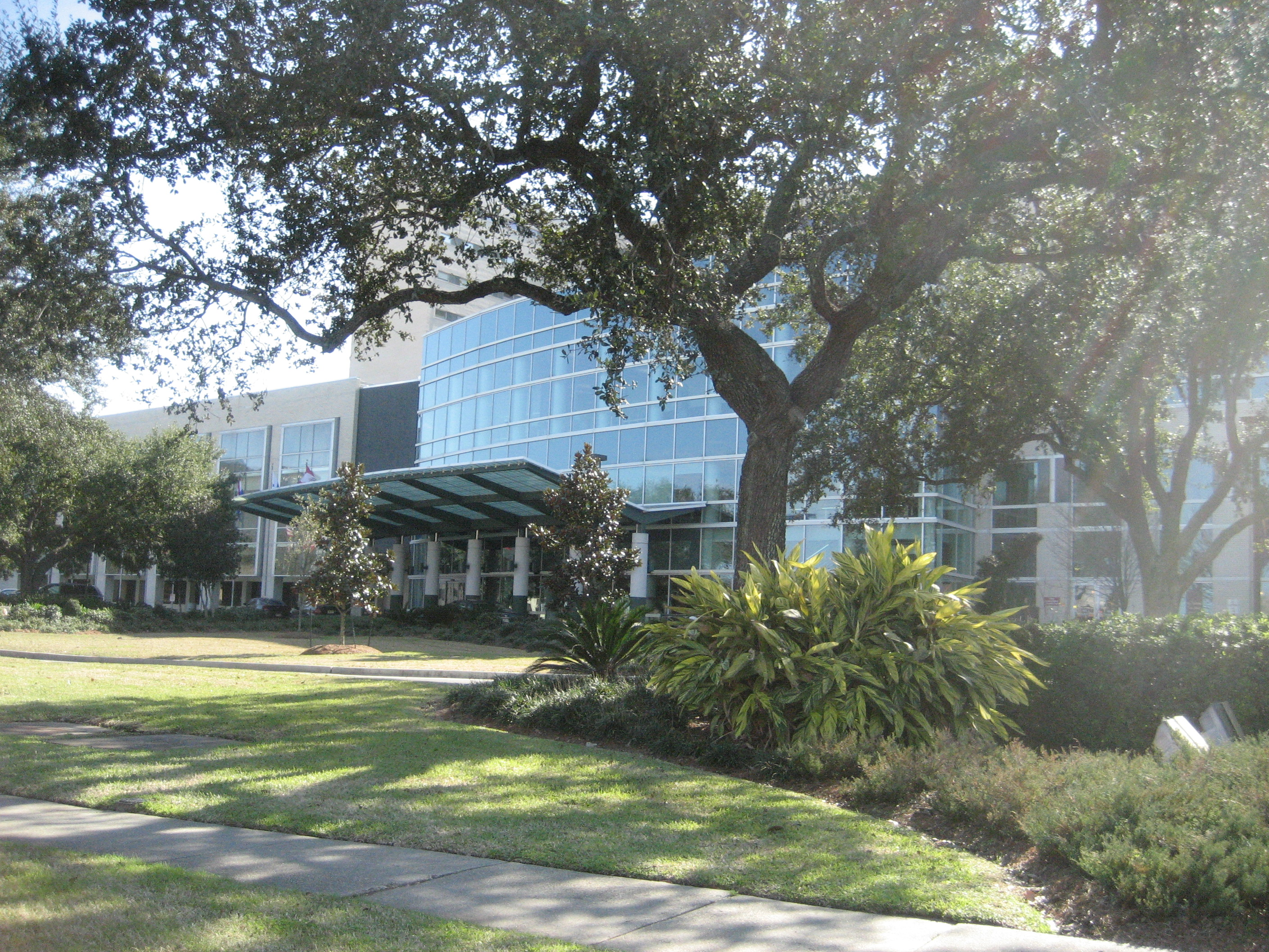 Jefferson Highway, Jefferson Parish, Louisiana, with view of Ocshener Hospital.